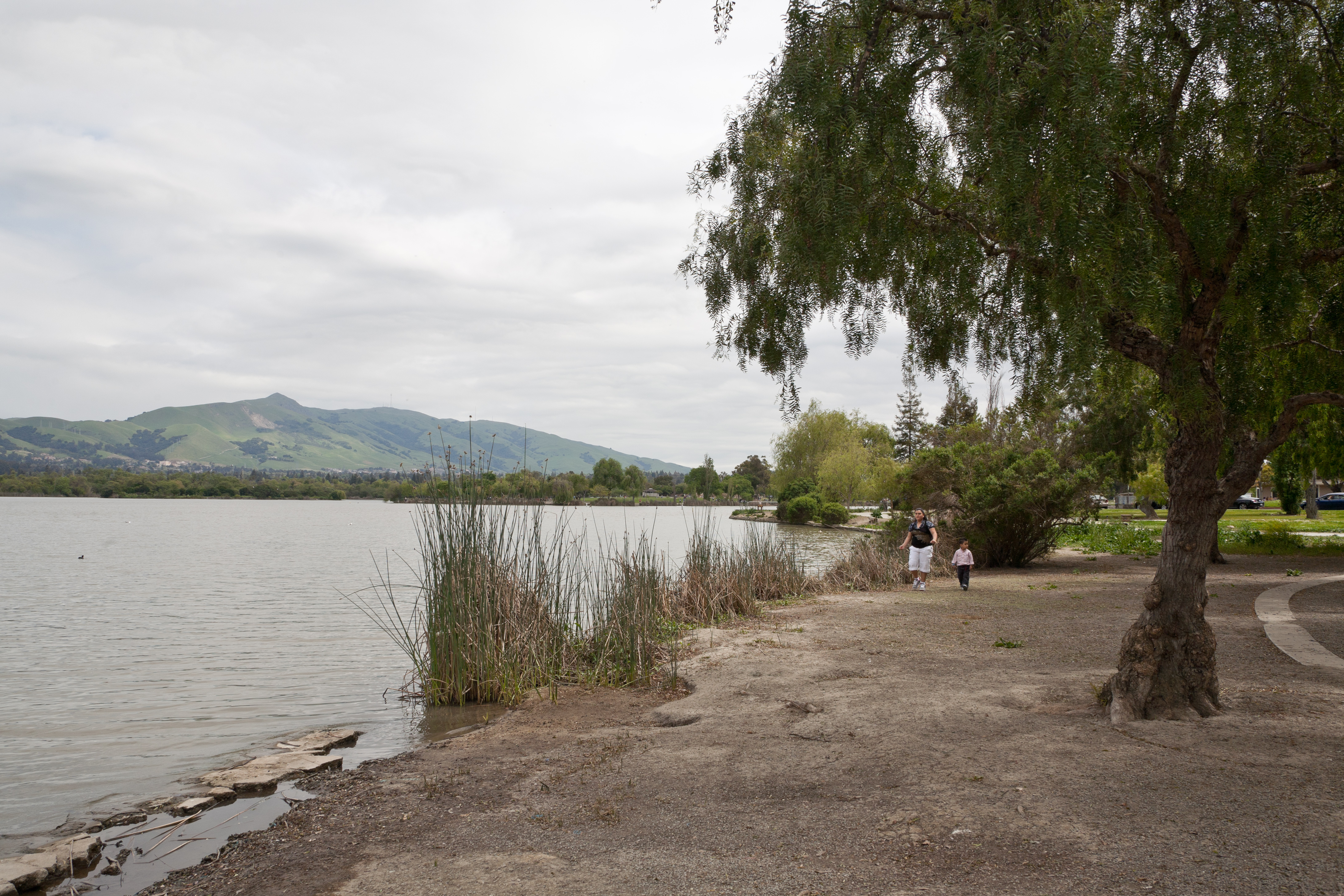 Fremont Central Park, Fremont, California, with Lake Elizabeth on the left, mountains in the background, and a tree on the right.